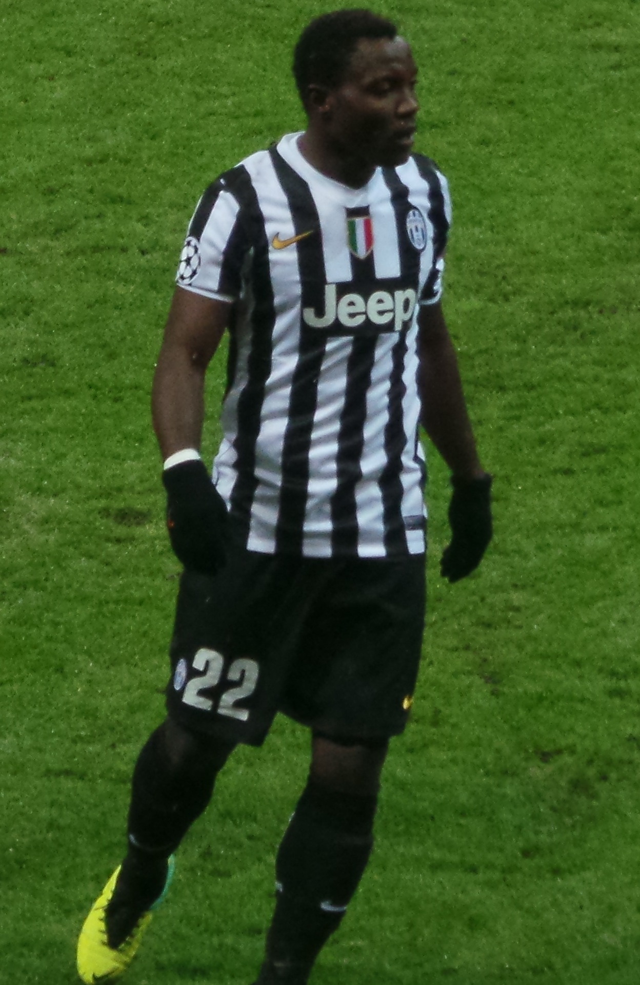 Kwadwo Asamoah